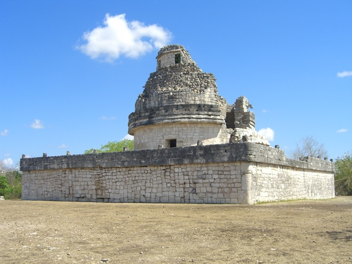 "The Observatory" (or "Caracol") at Chich'en Itza, from its supporting platform, Yucatán